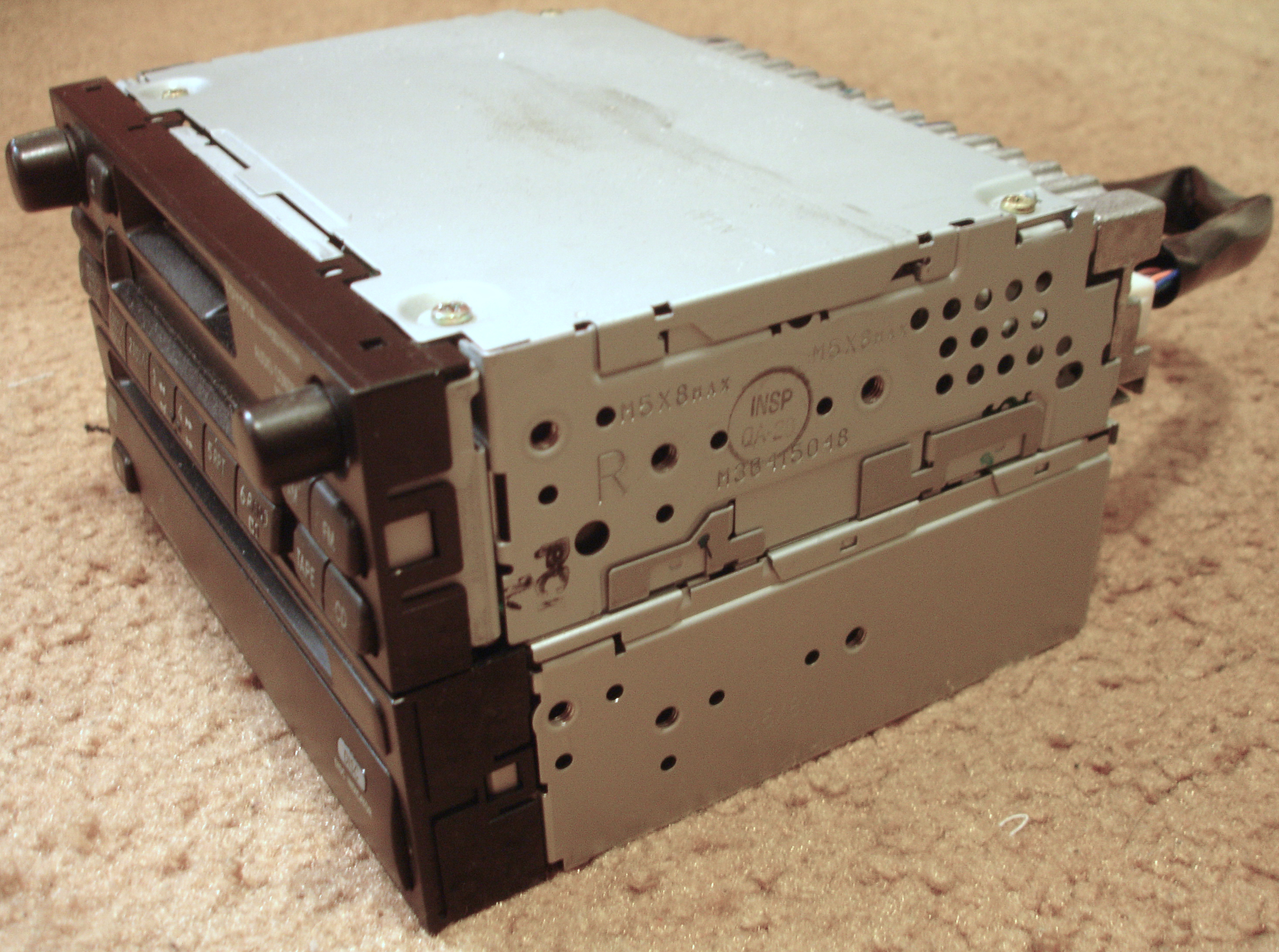 Toyota factory issued head unit and compact disc player, each a single DIN device using ISO 7736 bracketed screw mounts. Together they fit in a "double DIN" space in the dashboard of a vehicle.